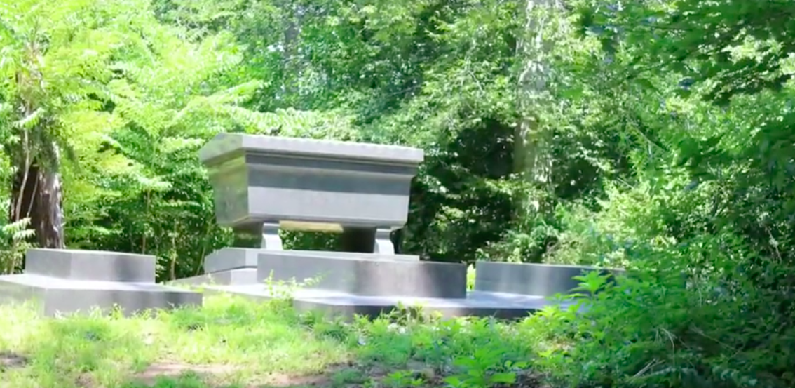 The graves of the family of Elliott Fitch Shepard, Public Domain, for any purpose, per this notice: 1